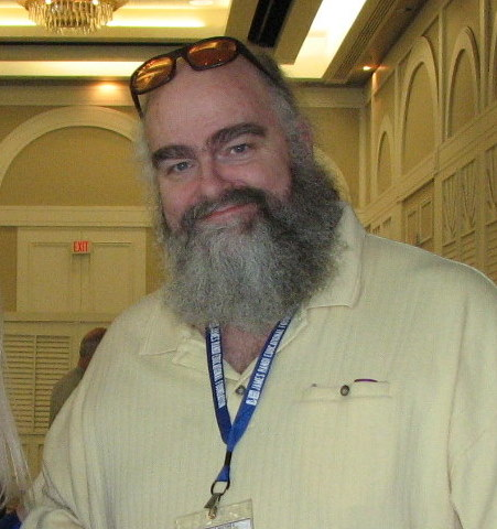 Robert Lancaster from Sylvia Browne fame at TAM6